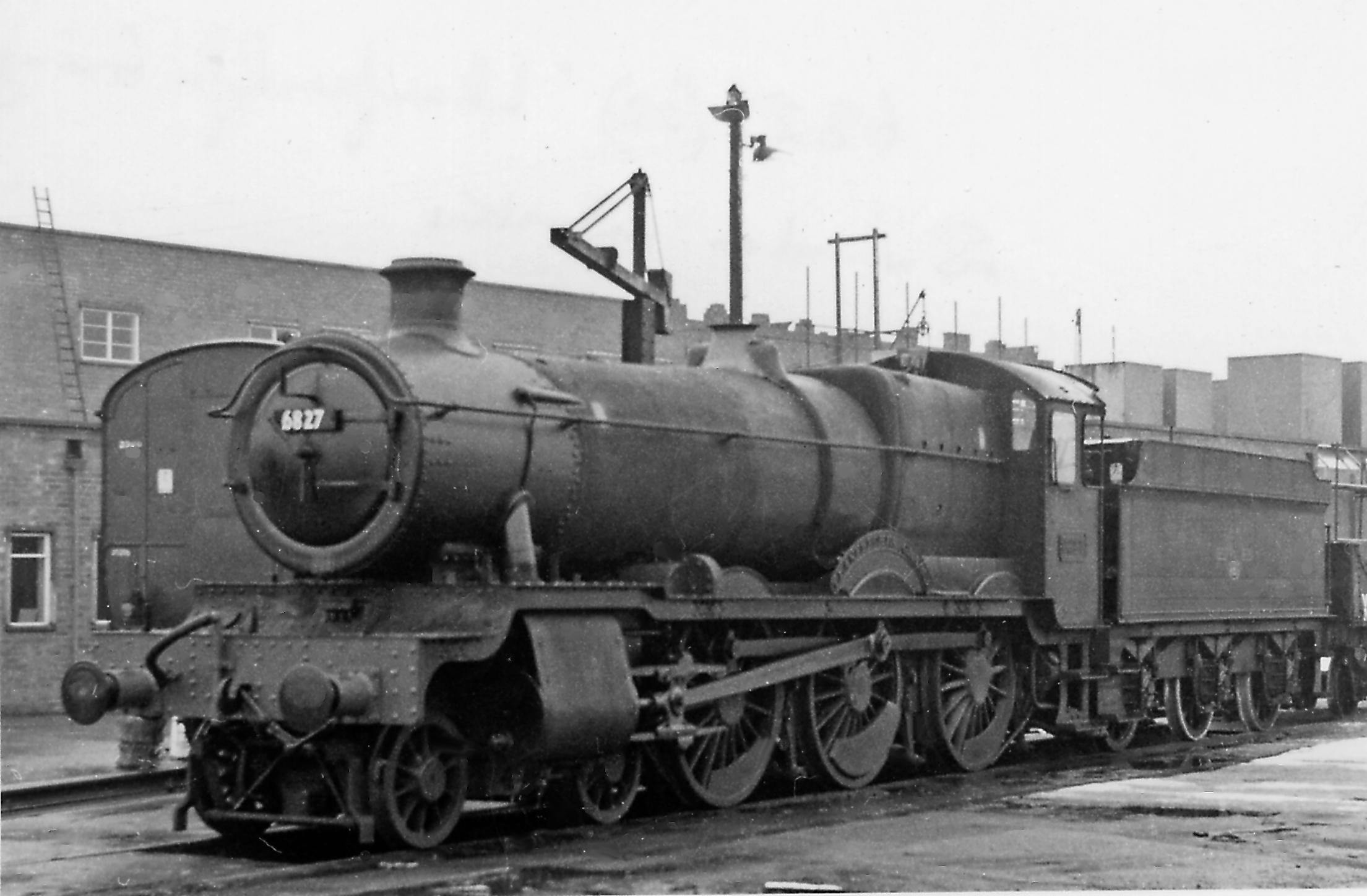 'Grange' 4-6-0 outside Swindon Works. Judging by its painted smokebox, Collett 4-6-0 No. 6827 'Llanfrechfa Grange' (built 2/37) has had only an Intermediate Repair, as it was condemned less than a year later, in 9/65